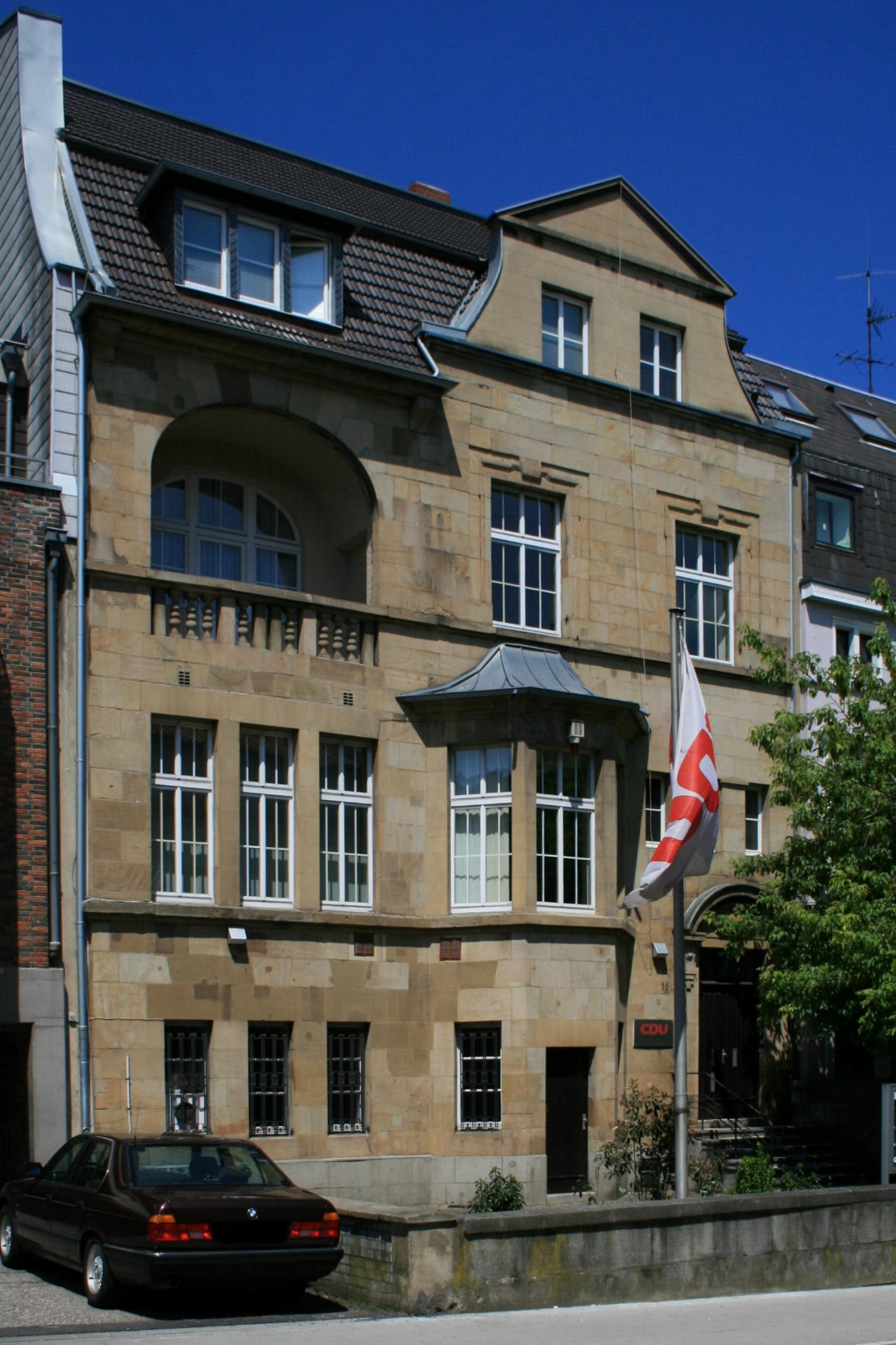 Cultural heritage monument No. R 027 in MönchengladbachThis is a photograph of an architectural monument. 027